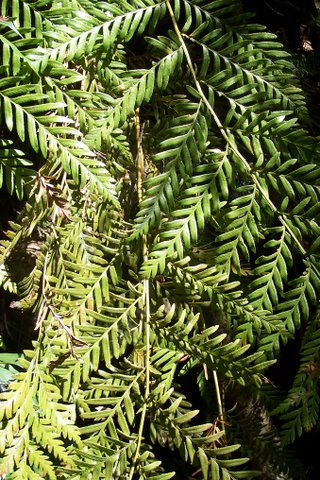 Todea barbara at Echo Park, Middle Harbour, NSW, Australia